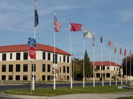 Coalinga, California, High School and a row of flags. Photo by George Garrigues.